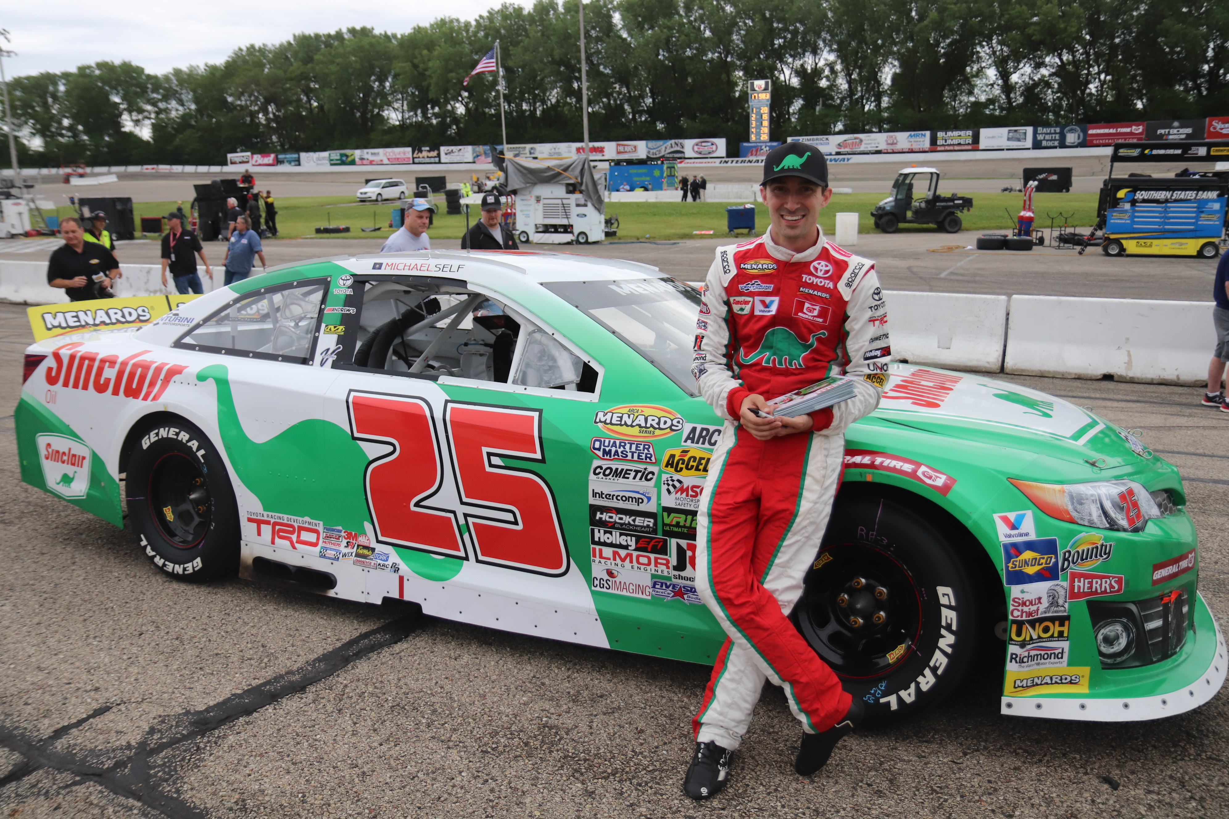 Michael Self stands beside his #25 Toyota Camry ARCA car at Madison.